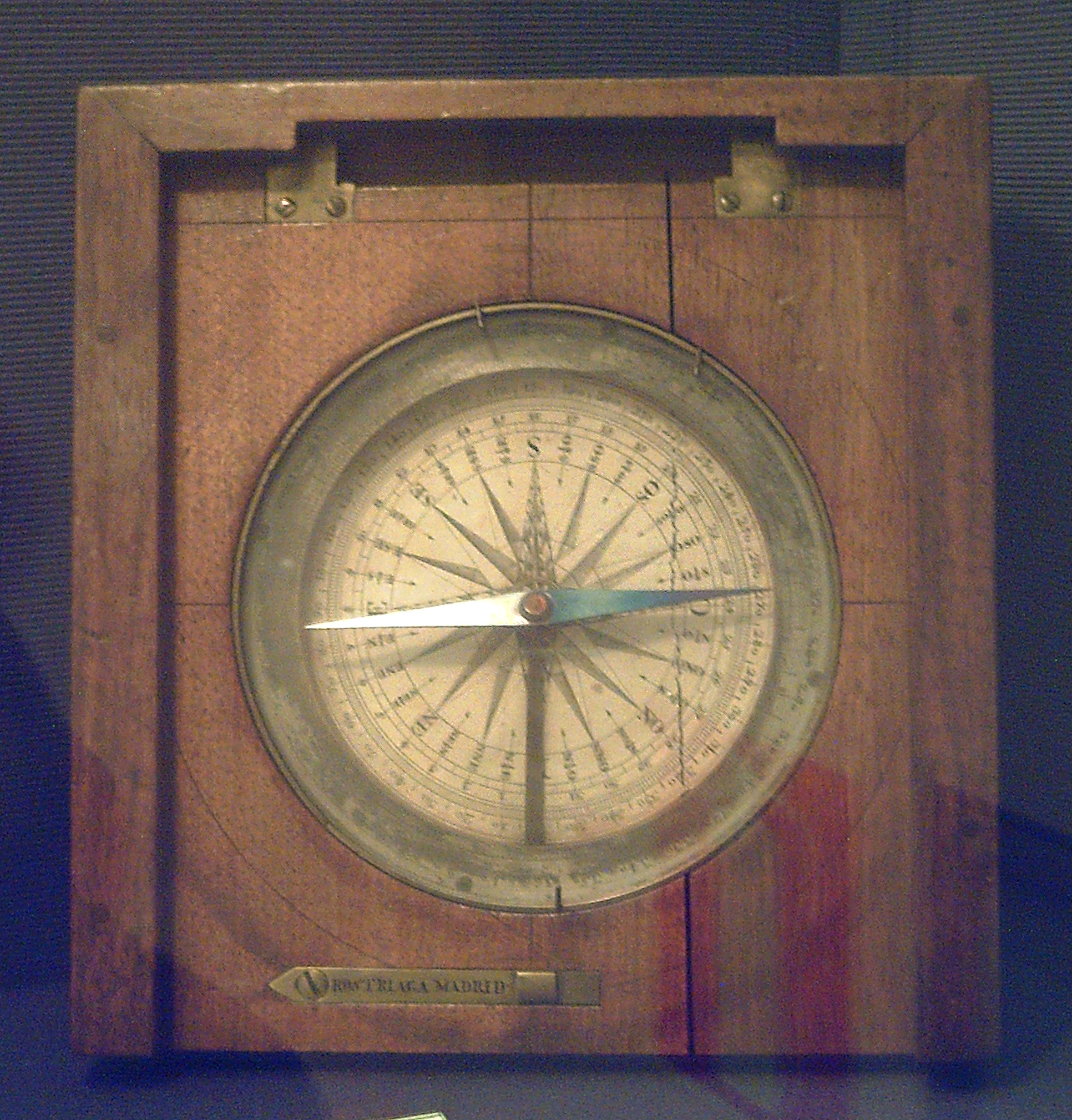 A surveyor compass.